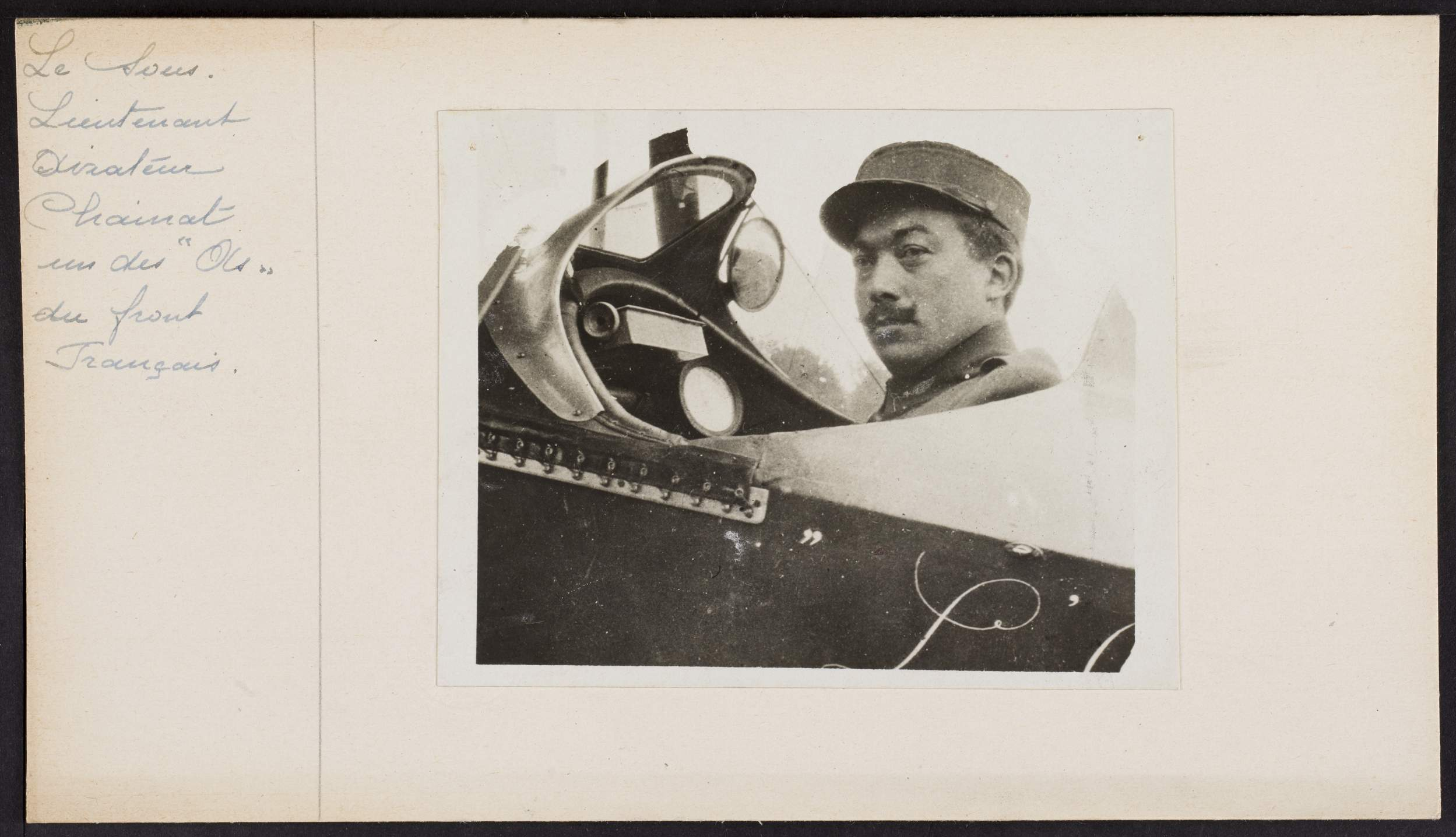 Le sous-lieutenant aviateur Chainat.